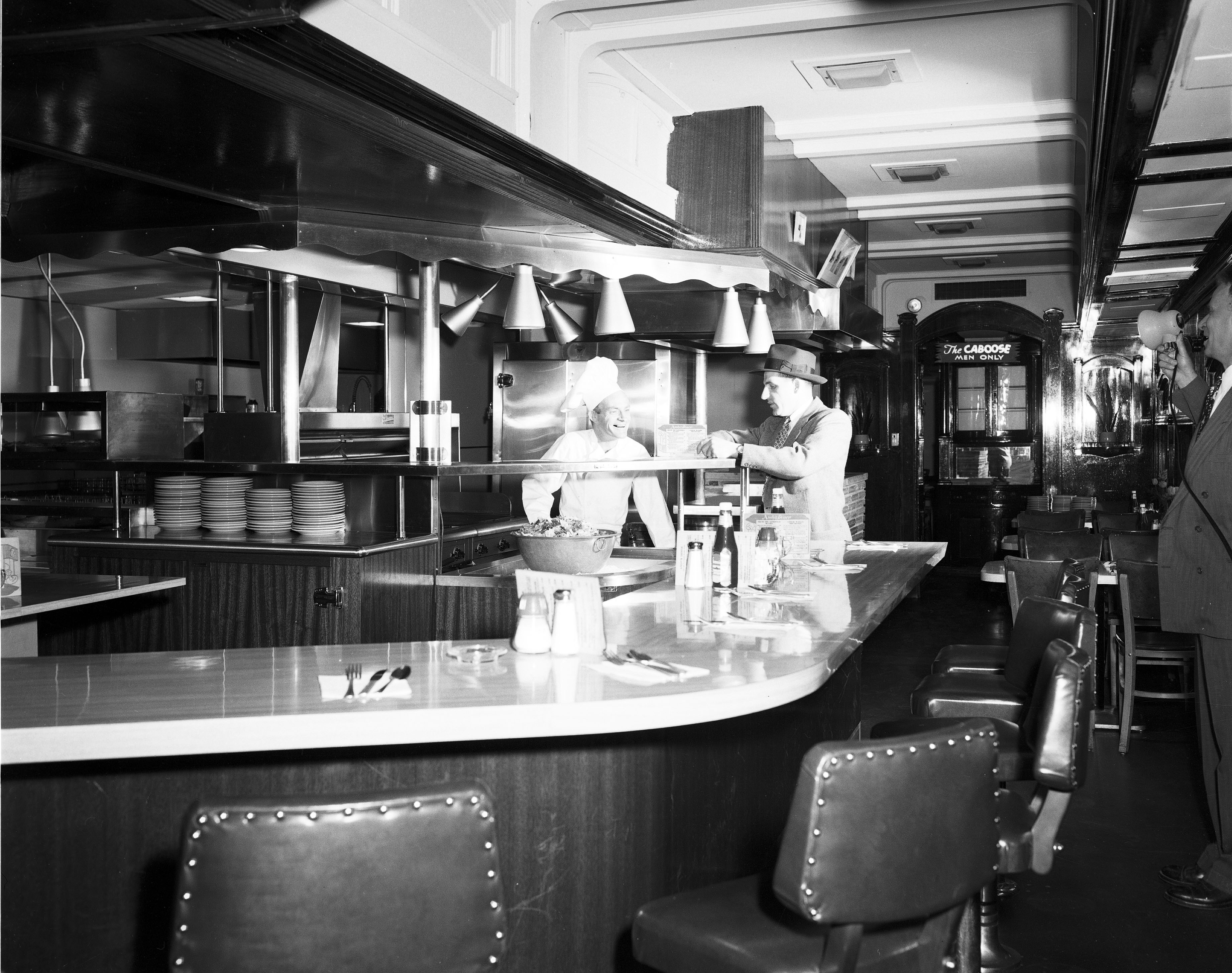 Interior of Andy's Diner (later Orient Express), 2963 4th Ave. S, Sodo, Seattle, Washington. The diner, incorporating several railway cars, operated for over 50 years. See Gregory Roberts The end of the line for Andy's Diner in Seattle, Seattle Post-Intelligencer, January 22, 2008. 1954 photo. Item 78436, City Light Photographic Negatives (Record Series 1204-01), Seattle Municipal Archives.